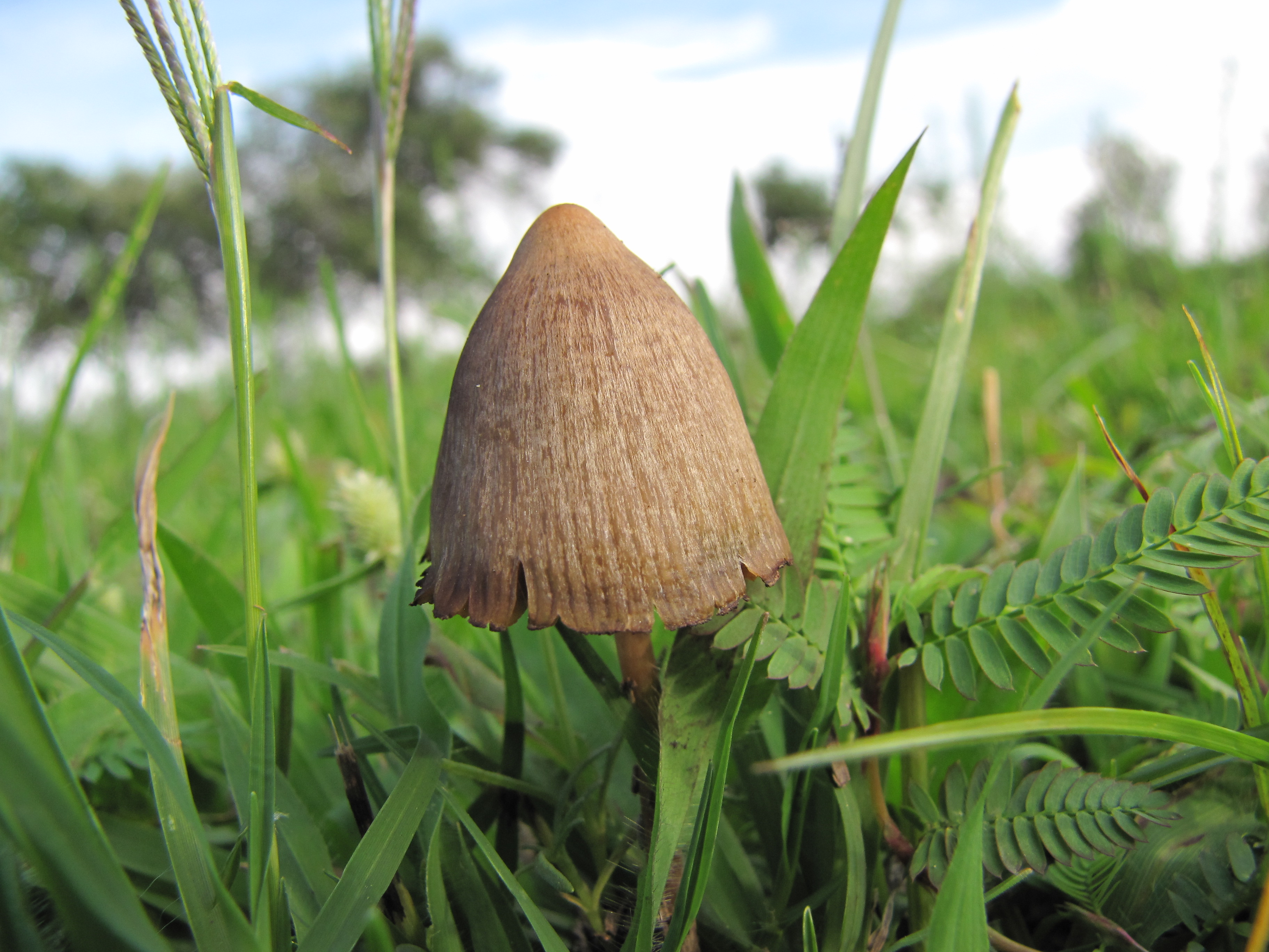 A fruit body of the psychedelic mushroom Psilocybe mexicana R. Heim. Photographed in Guadalajara, Jalisco, Mexico.